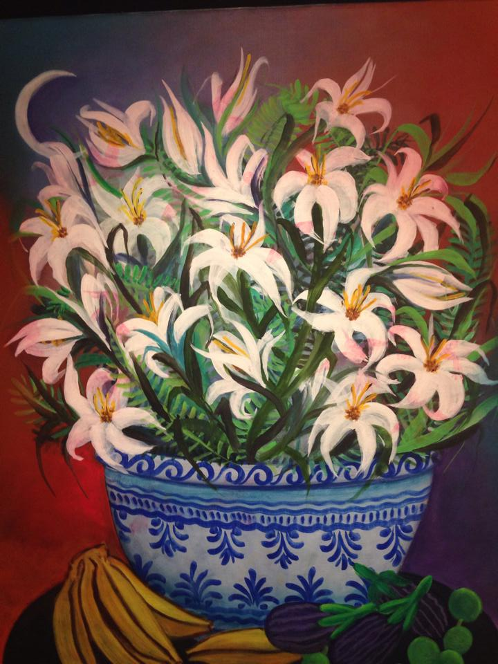 Pintura de Julia López ubicada en el museo de ka Casa del Risco,en San Ángel, México